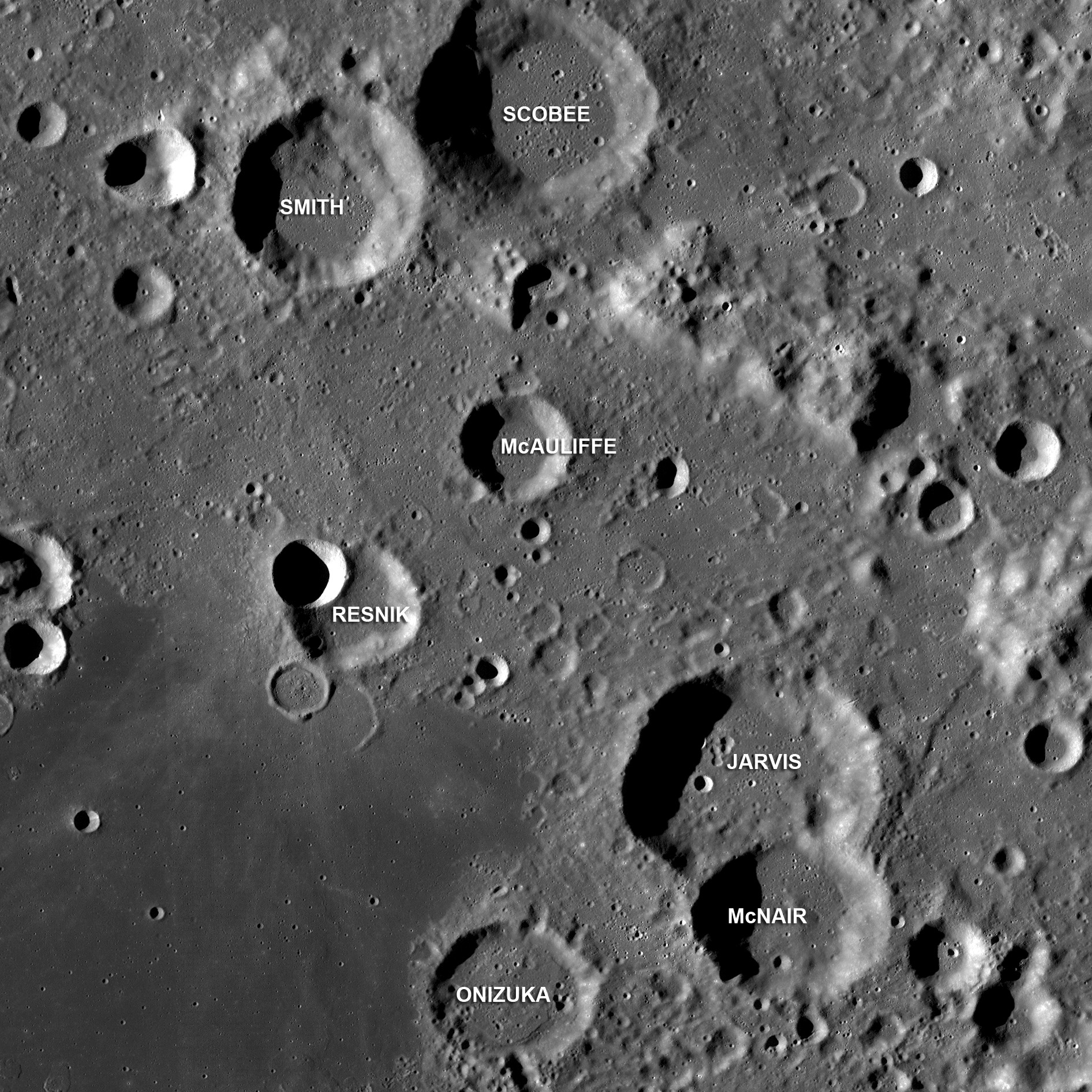 Craters in the center of Apollo basin (36°S, 209°E) named after Space Shuttle Challenger astronauts, LROC WAC mosaic, ~190 km wide [NASA/GSFC/Arizona State University].